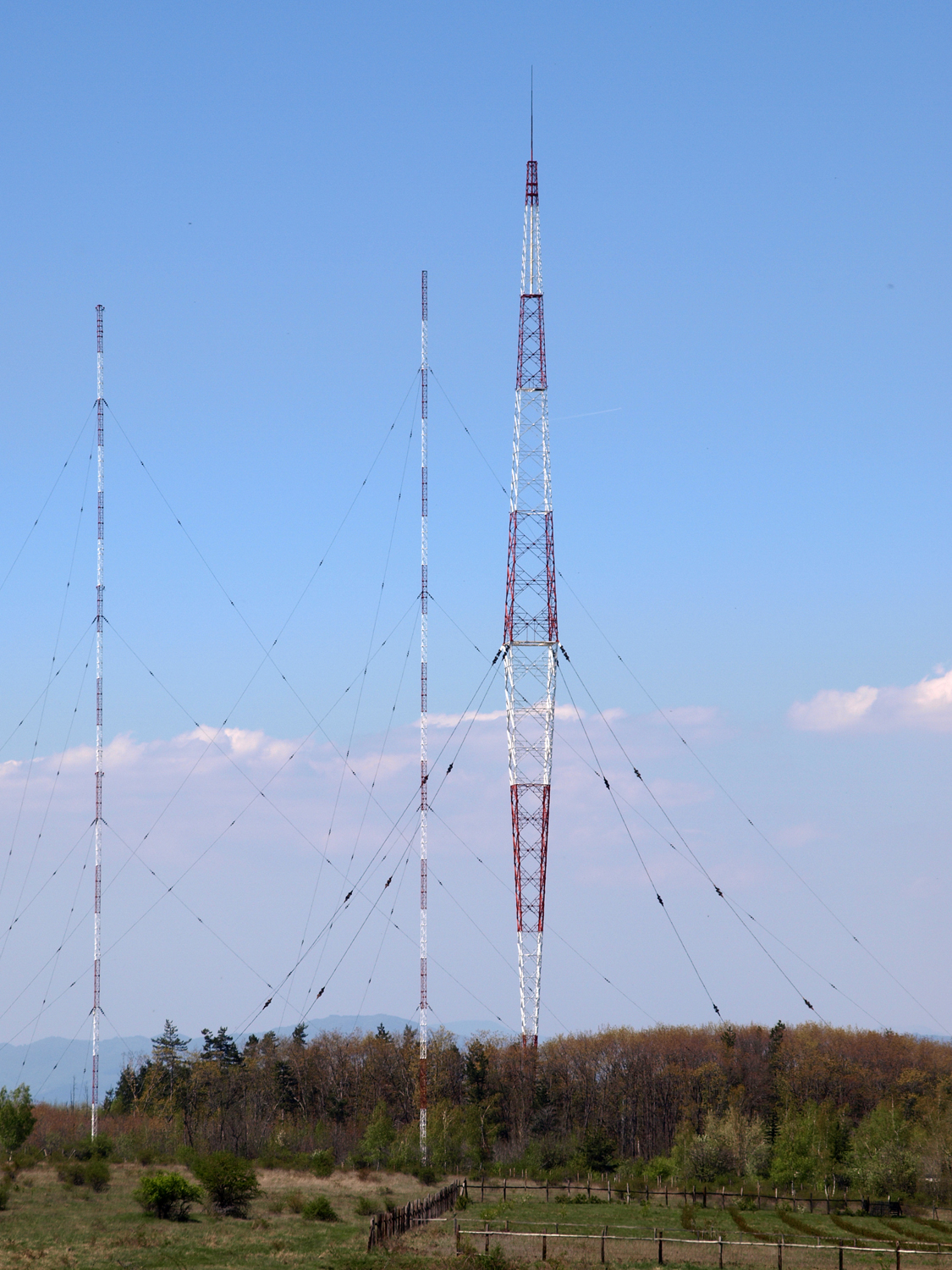 Radio transmitter of antennas at Vakarel, Type Blaw-Knox. Build 1937 by german company Telefunken